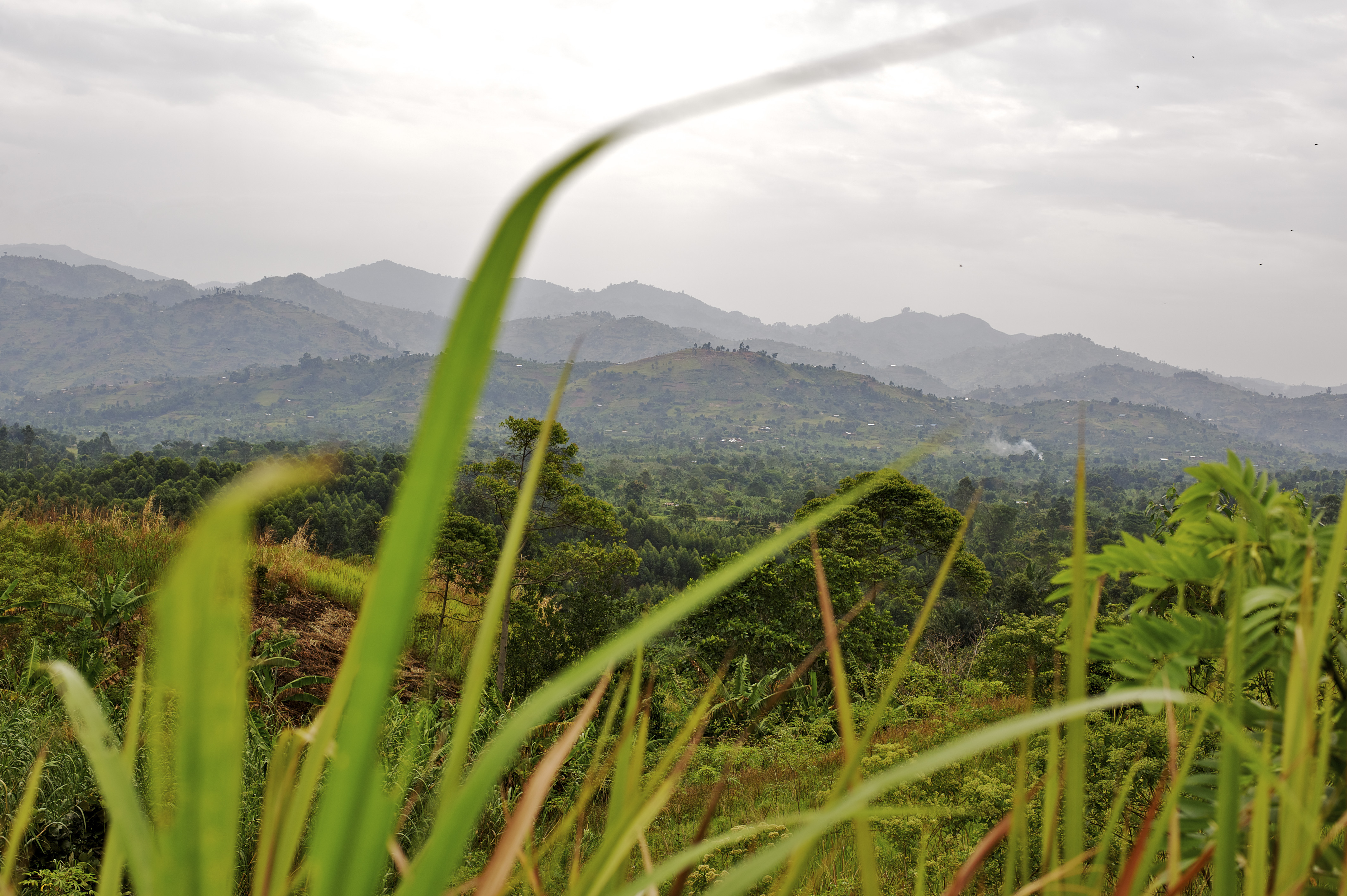 They sell to Uganda because of lack of market options in Congo. “When we try and cross the border the armed men take the coffee or charge us money. We rely on coffee yet we are left virtually nothing.” Photo: Caroline Gluck/Oxfam